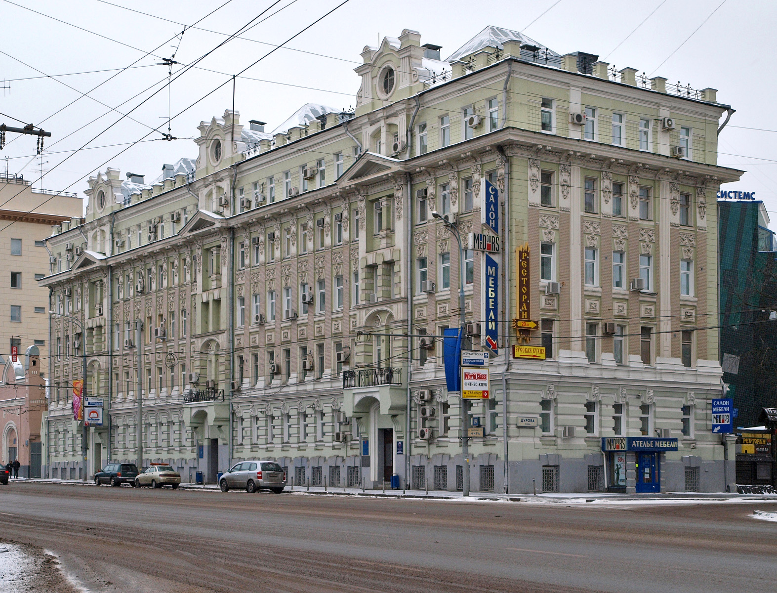 Prospect Mira, Moscow.